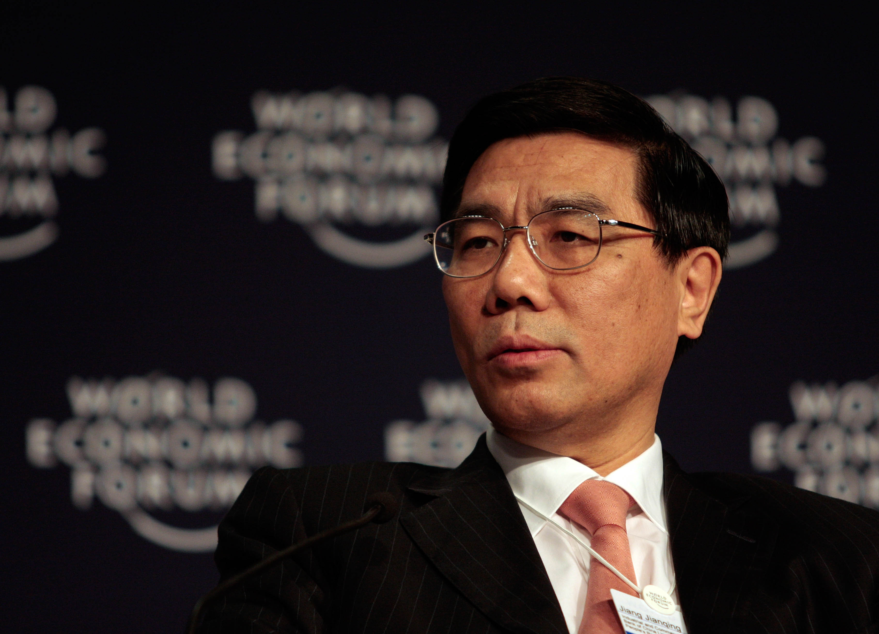 Jiang Jianqing, Chairman of the Board of Industrial and Commercial Bank of China, at the World Economic Forum Annual Meeting of the New Champions in Tianjin, China.